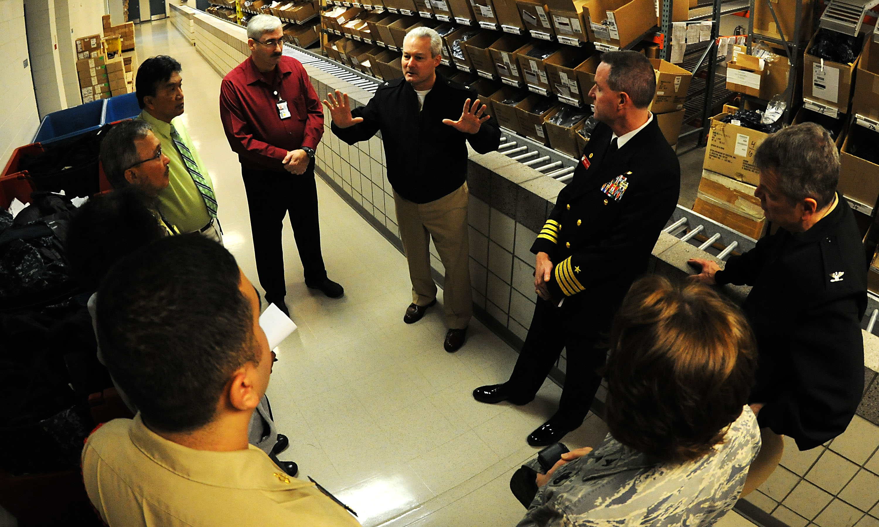 GREAT LAKES, Ill. (Dec. 1, 2011) Rear Adm. David F. Baucom, commander of Defense Logistics Agency Troop Support, tours the uniform issue department at the Recruit Training Command. Baucom observed the process as recruits were issued their uniforms. (U.S. Navy photo by Mass Communications Specialist 1st Class Andre N. McIntyre/Released)